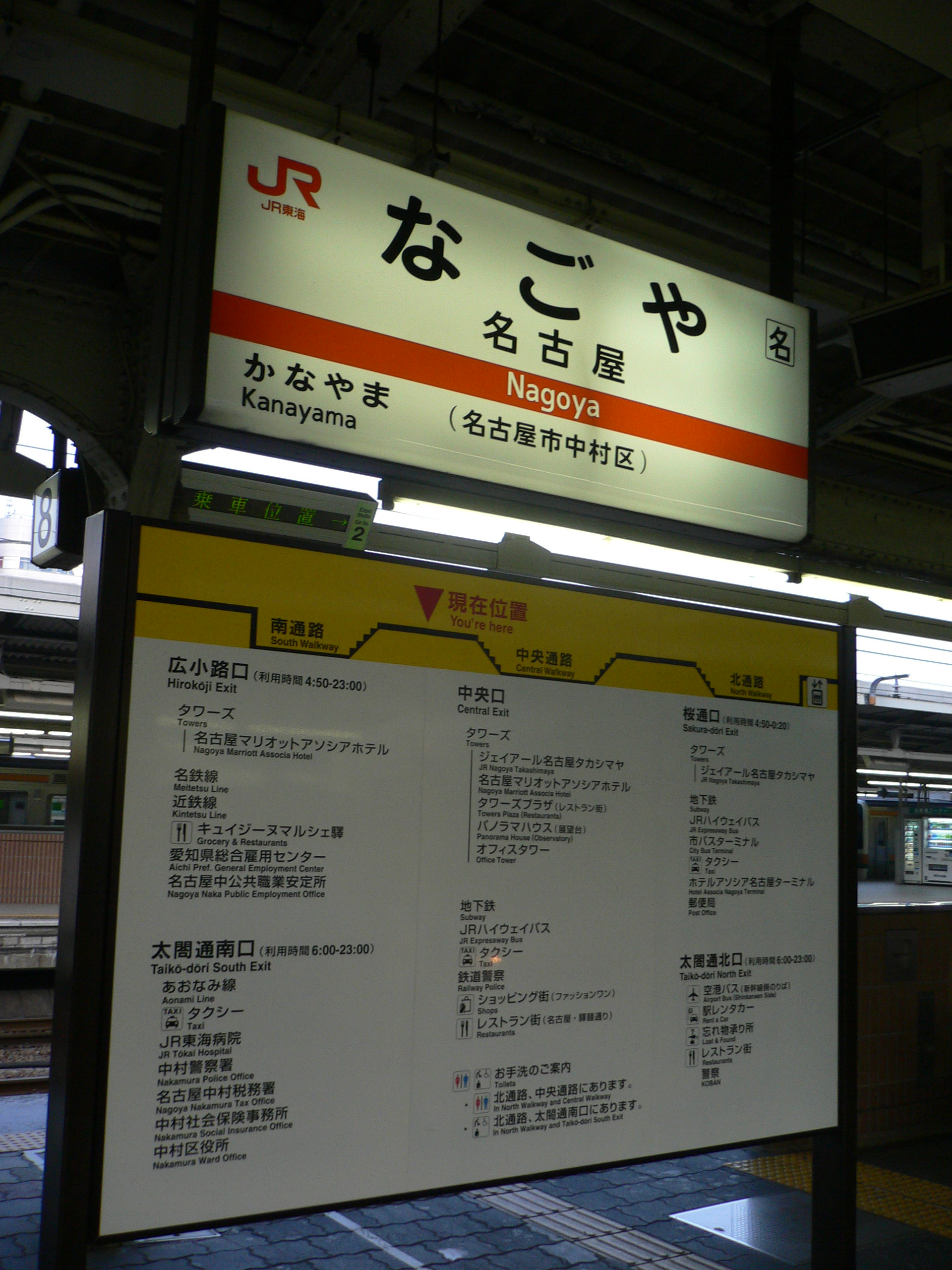 Nagoya Station (Nagoya Station), Nakamura W, Nagoya C, Aichi P.